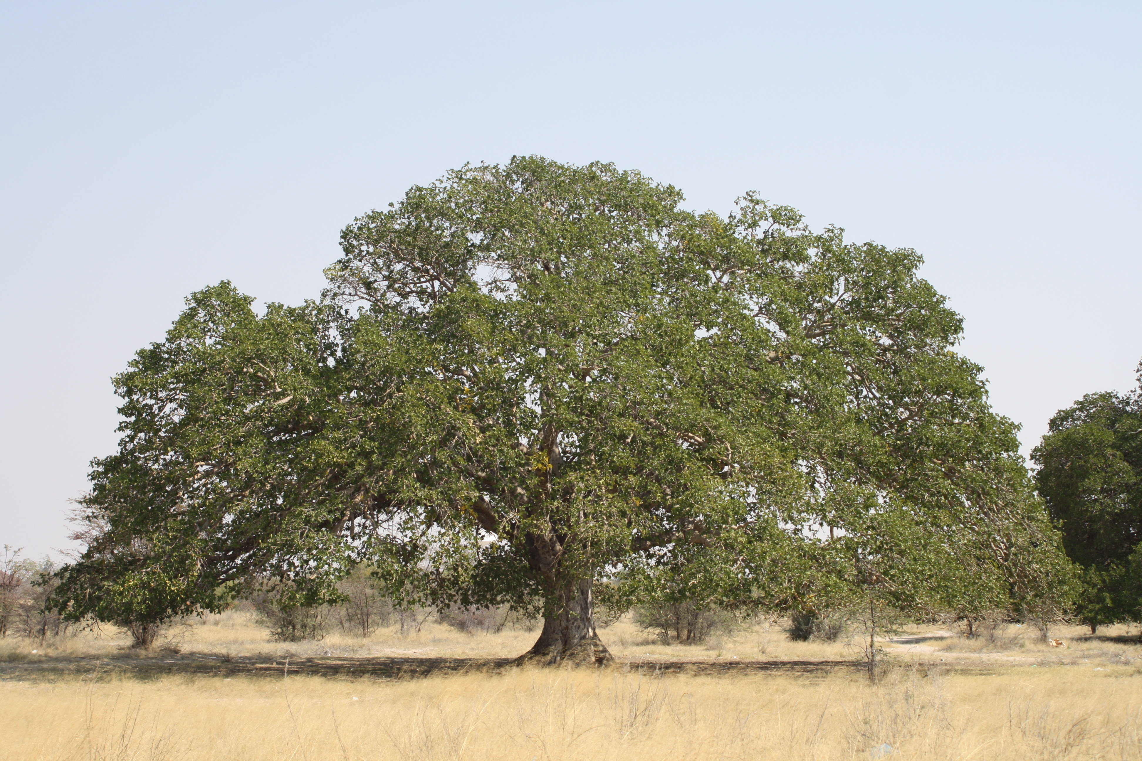 Figue tree in Ongwediva, Namibia